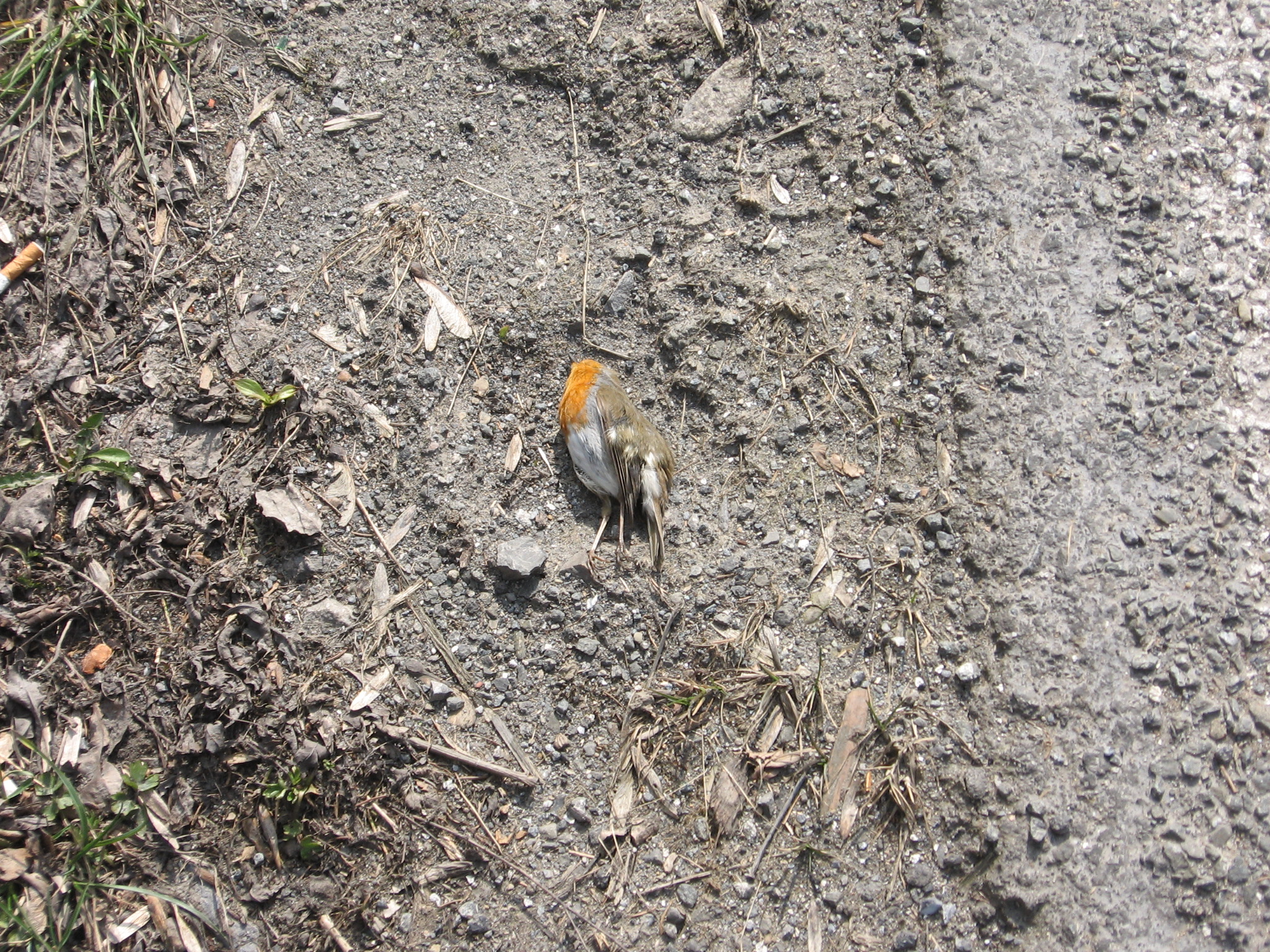 Roadkill of a European Robin (Erithacus rubecula), Sauerland, Germany.